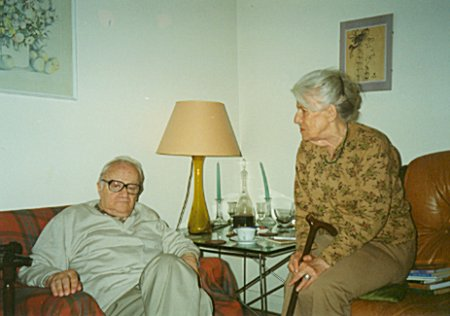 Kazimierz Brandys (1916-2000), polish writer and Maria Zenowicz-Brandys (1916-2007), Polish translator